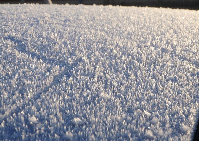 Frost on car roof, Newton Abbot A hard frost this sunny morning in South Devon.